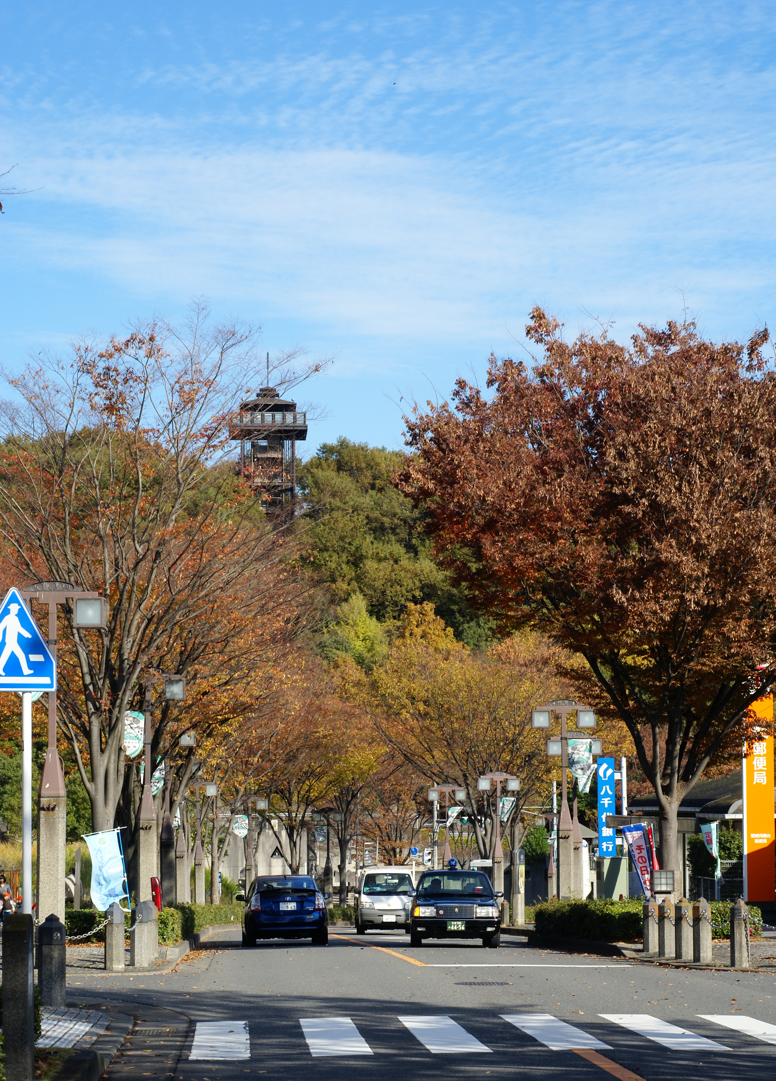 Koendori avenue, Koyodai, Inagi